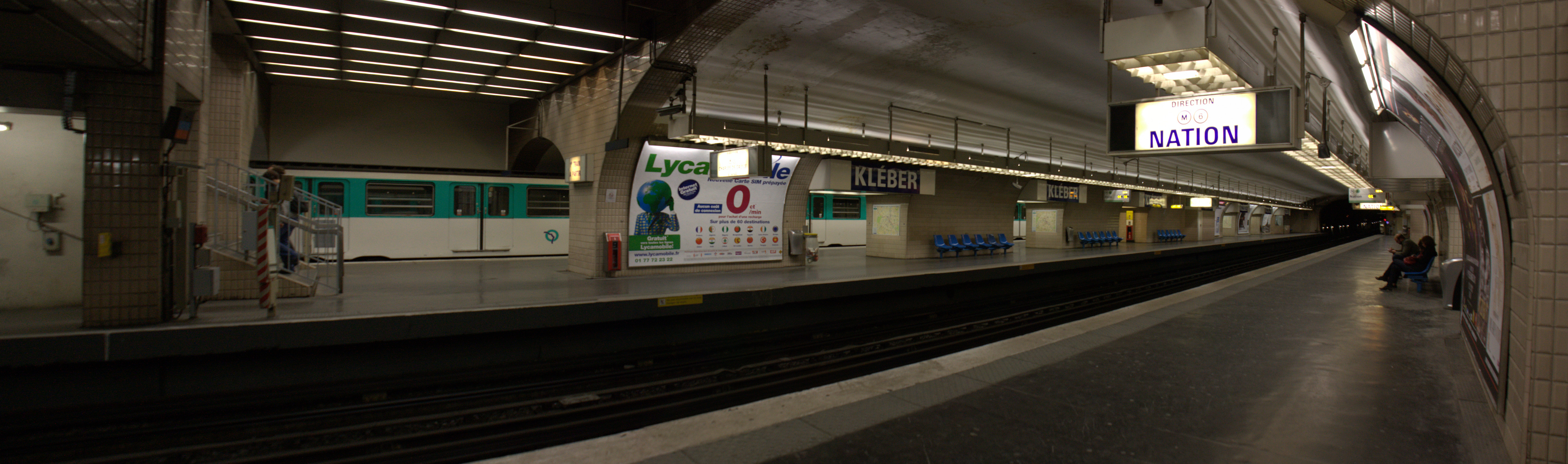 Kléber Métro Station in Paris, France.